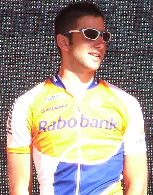 Named cyclist at the en:2009 Tour Down Under team presentation